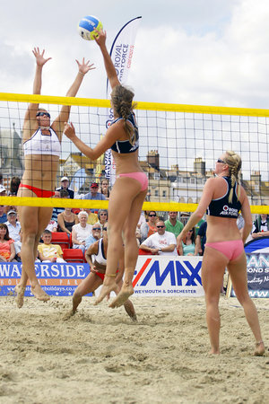 Beach Volleyball Classic 2007 Weymouth Dorset ENGLAND